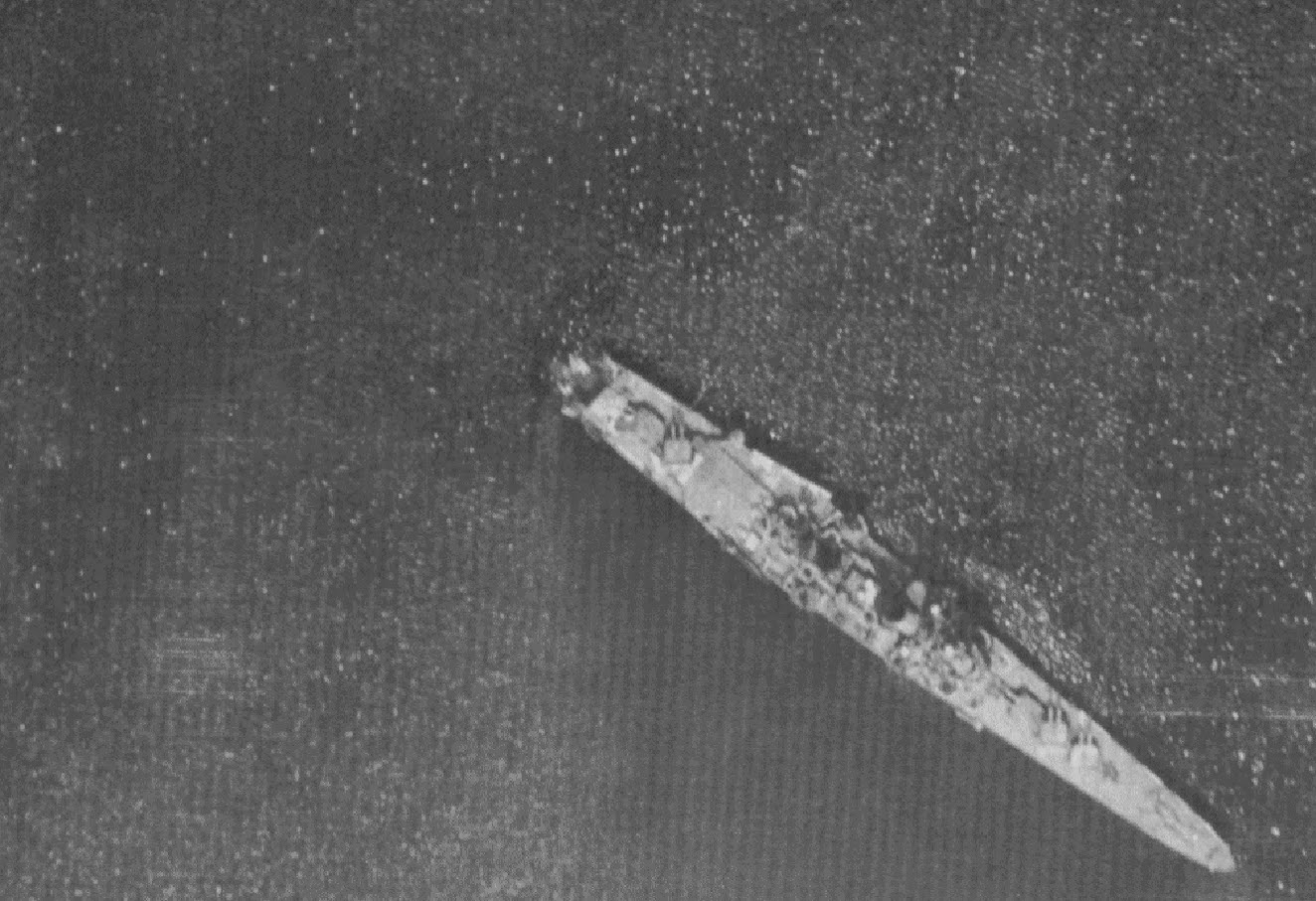 Picture of Japanese heavy cruiser Myōkō from above in 1945.